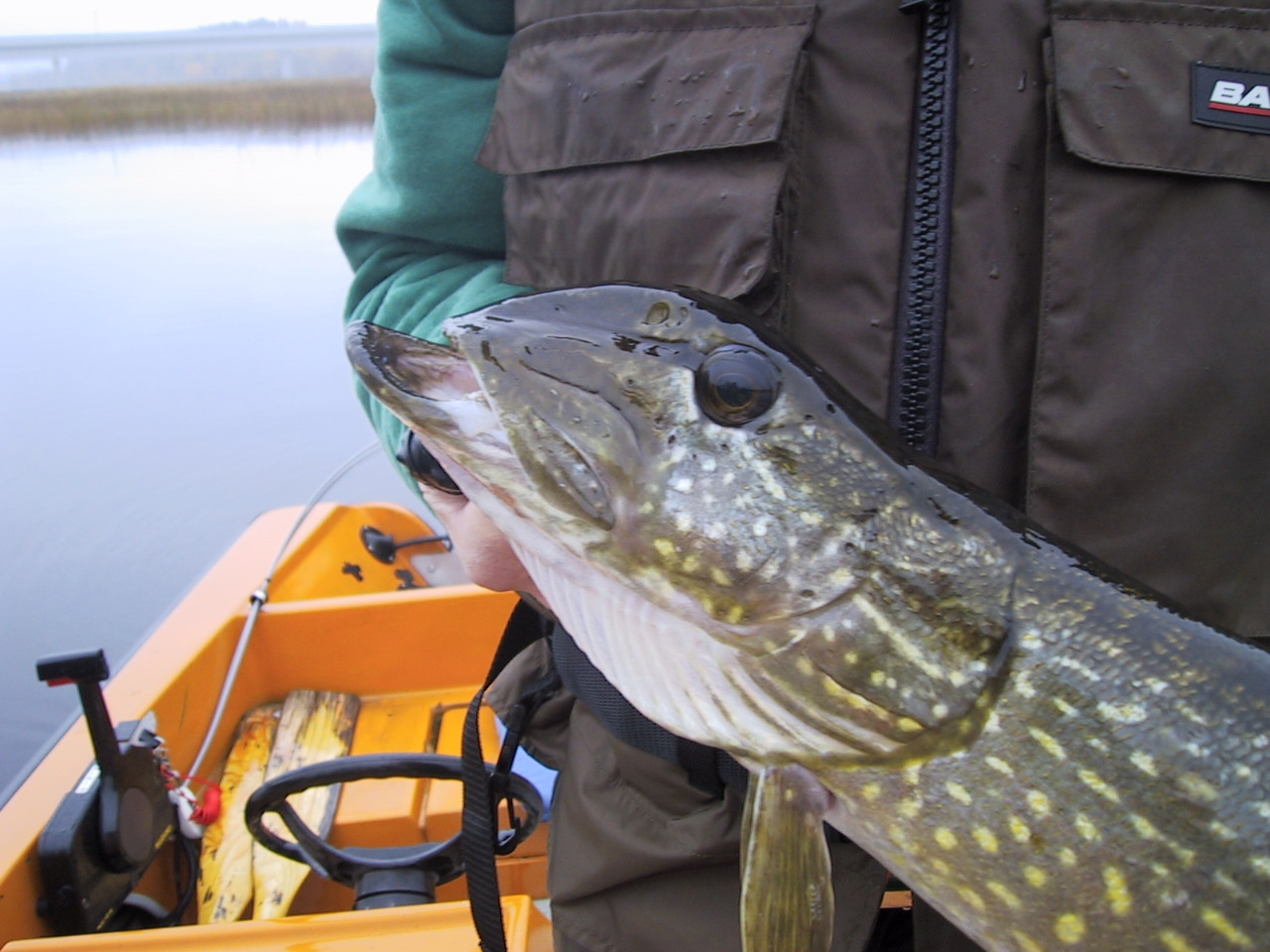 A northern pike (Esox lucius) with a malformed upper jaw.